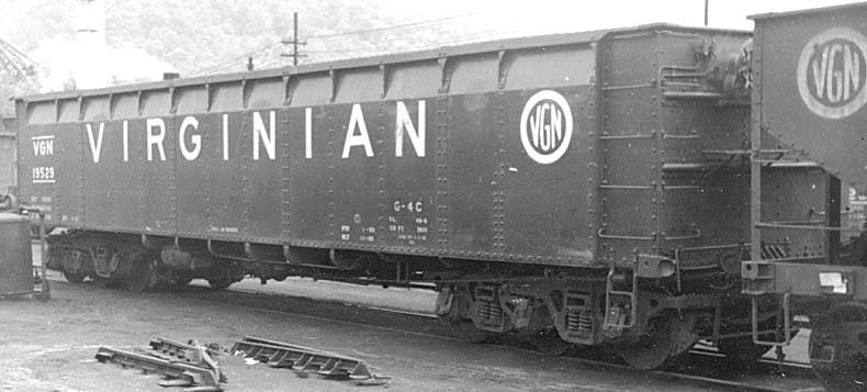 Virginian Railway battleship gondola with road number 19529. 49' all steel gondola, 3850 cu. ft. capacity, built by Pressed Steel Co.